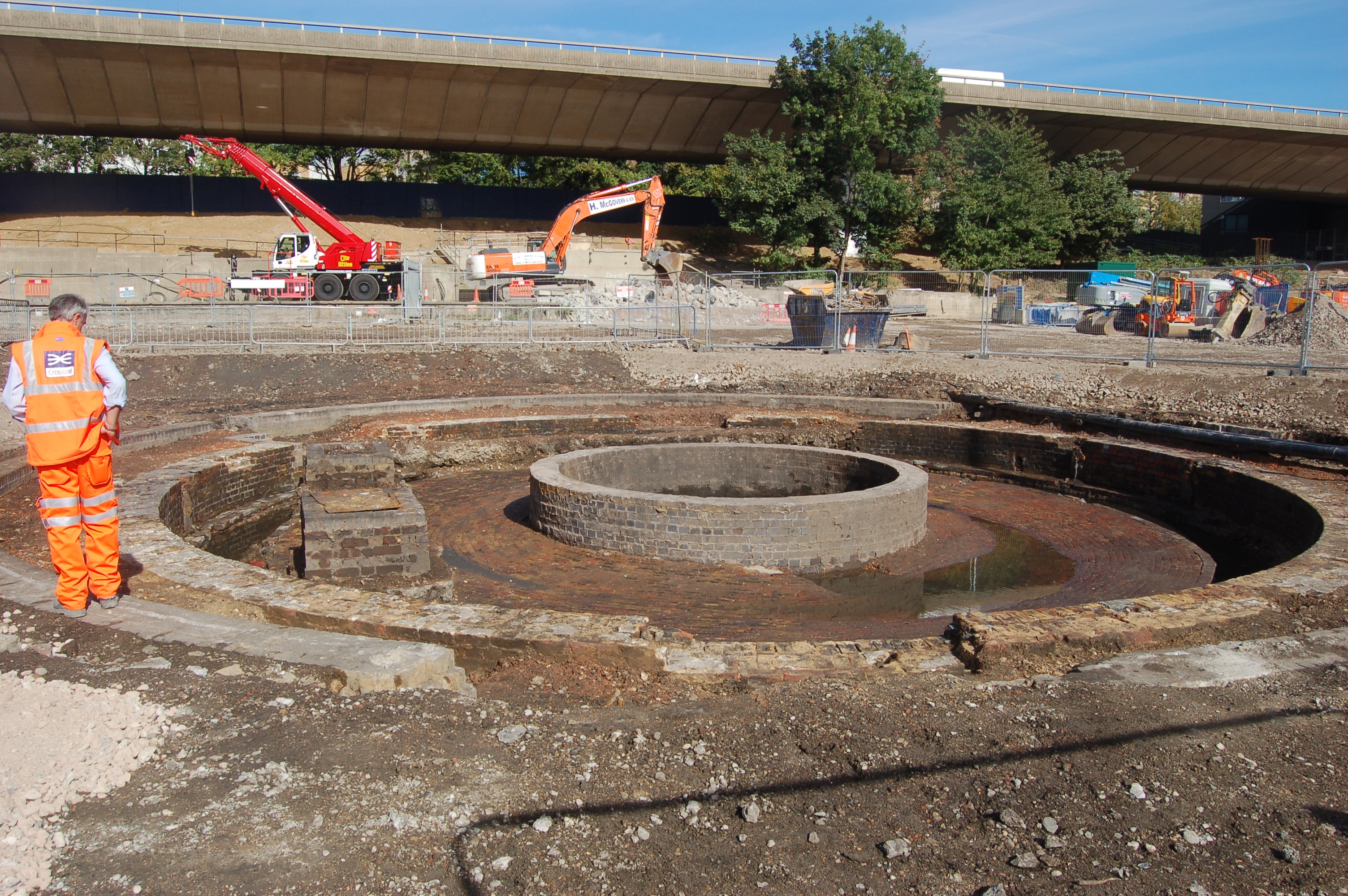 Excavation of a Victorian railway engine turntable between Royal Oak and Westbourne Park stations. The site is being cleared to make room for new tracks etc. as part of the Crossrail project, and was briefly open to the public on the day these photographs were taken.